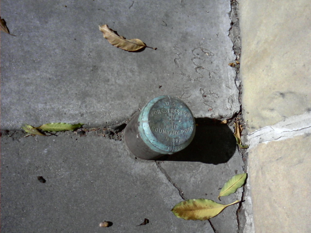 US Forest Reserve Boundary Post 1905 marker near the corner of Garden and Mission in Santa Barbara. (Possibly related to Santa Barbara Forest Reserve, which later became Los Padres National Forest.)